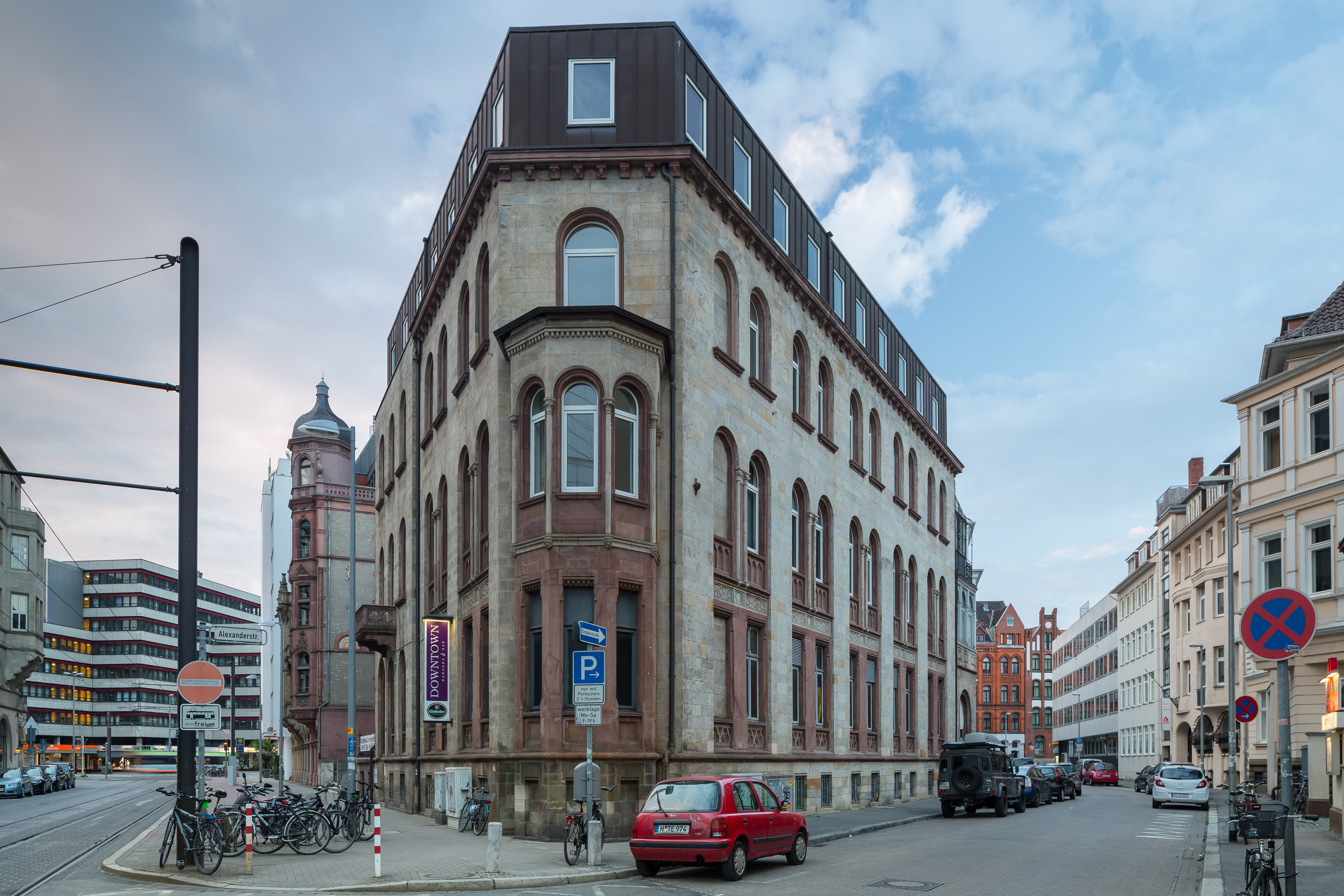 House located at Prinzenstrasse and Alexanderstrasse in Hanover, Germany.